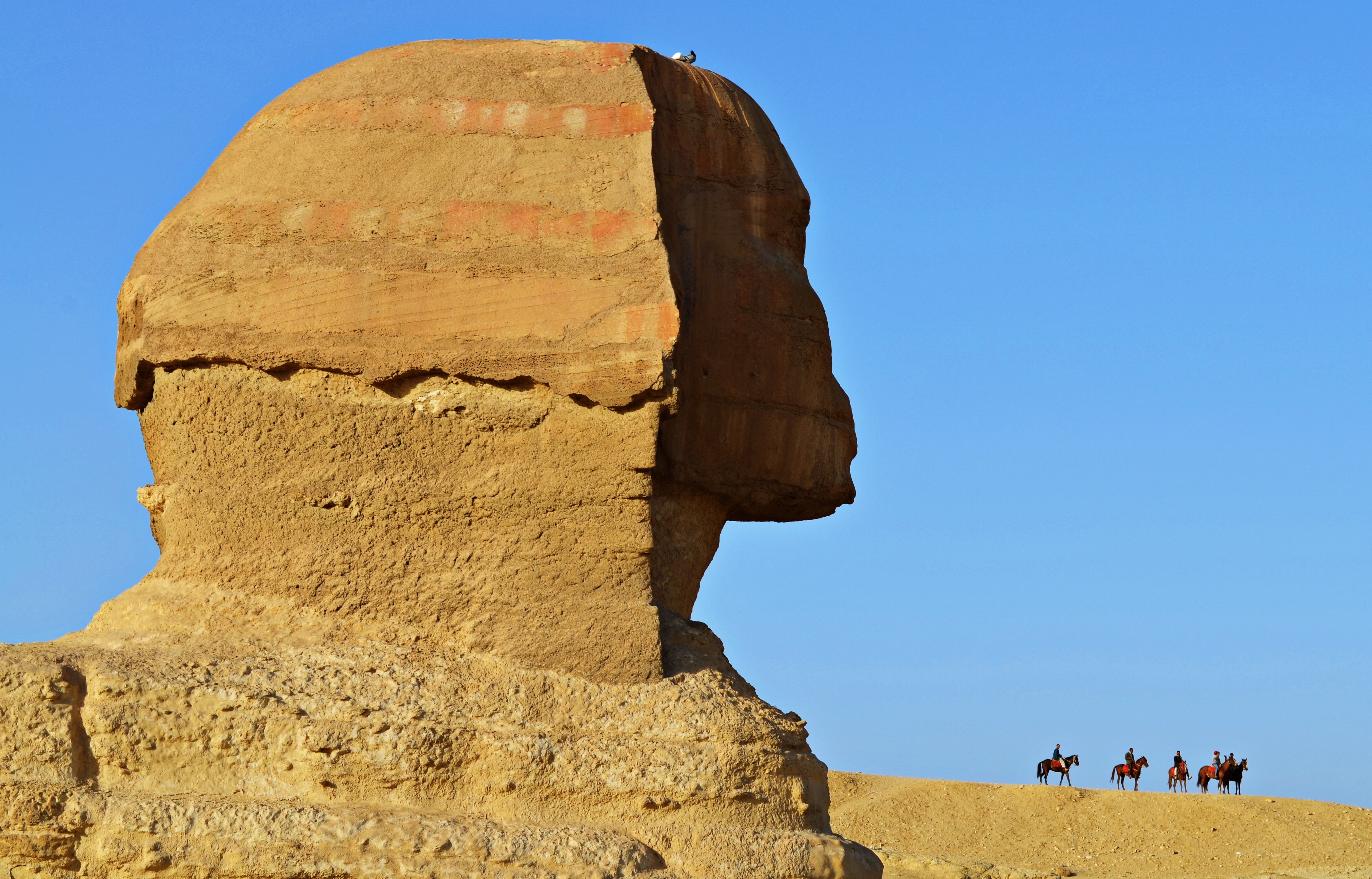 Head of the Sphinx, Giza, Egypt.